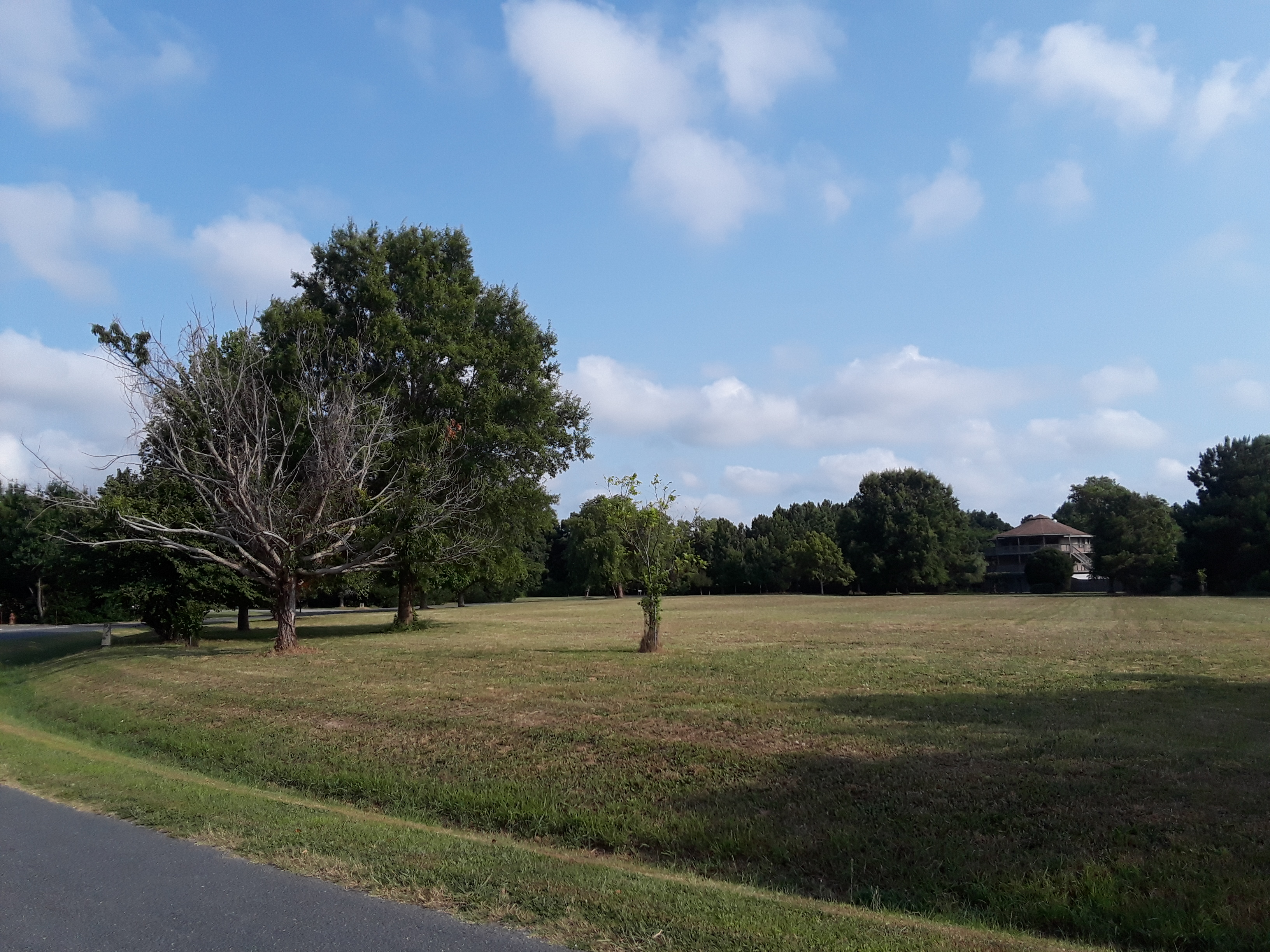 Taken on a visit to the Eastern Shore of Virginia, July 2018